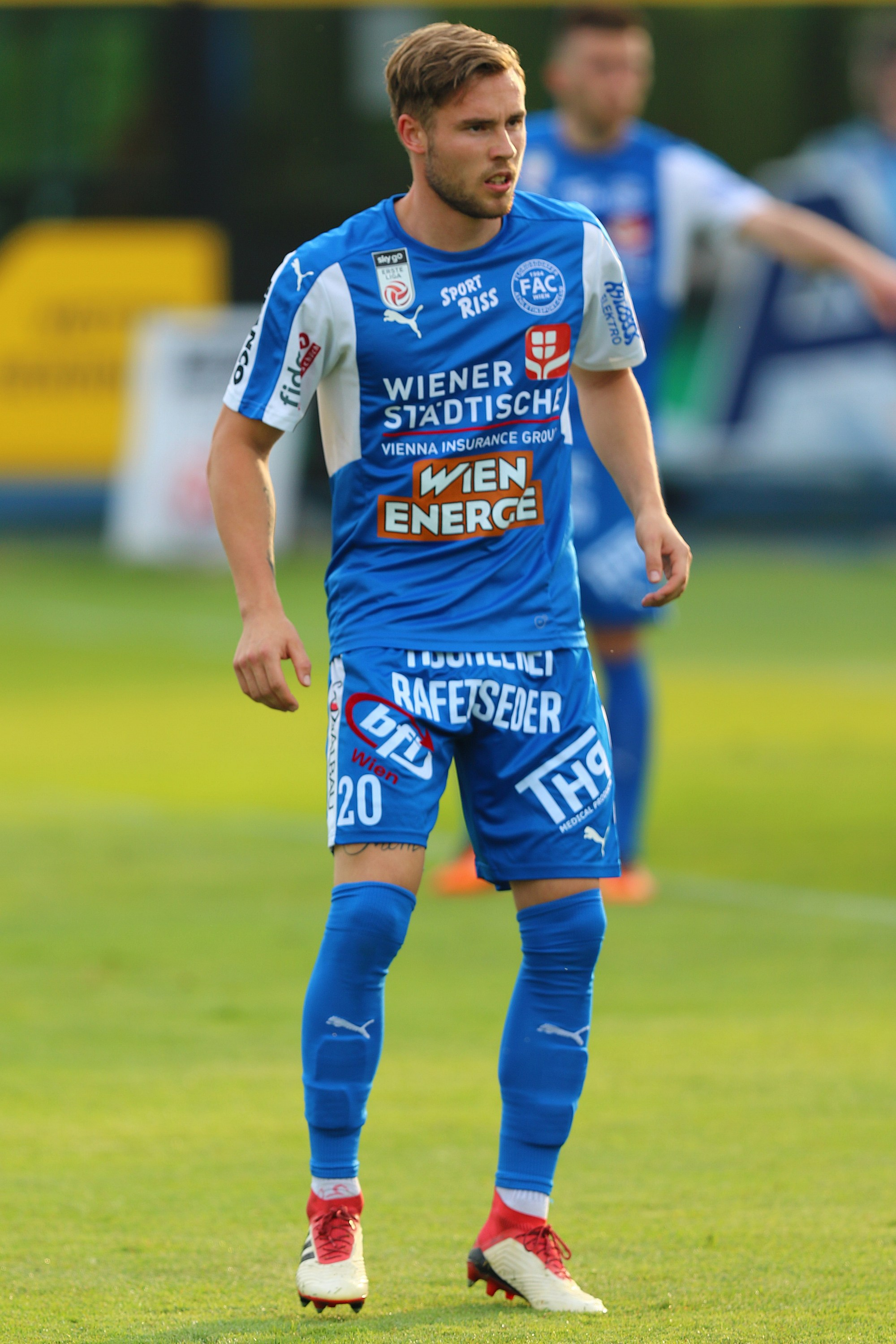 Football-championship Erste Liga 2017–18 - SC Wiener Neustadt (white shirts) vs. Floridsdorfer AC (blue shirts) 1-0. – The photo shows Stefan Bergmeister